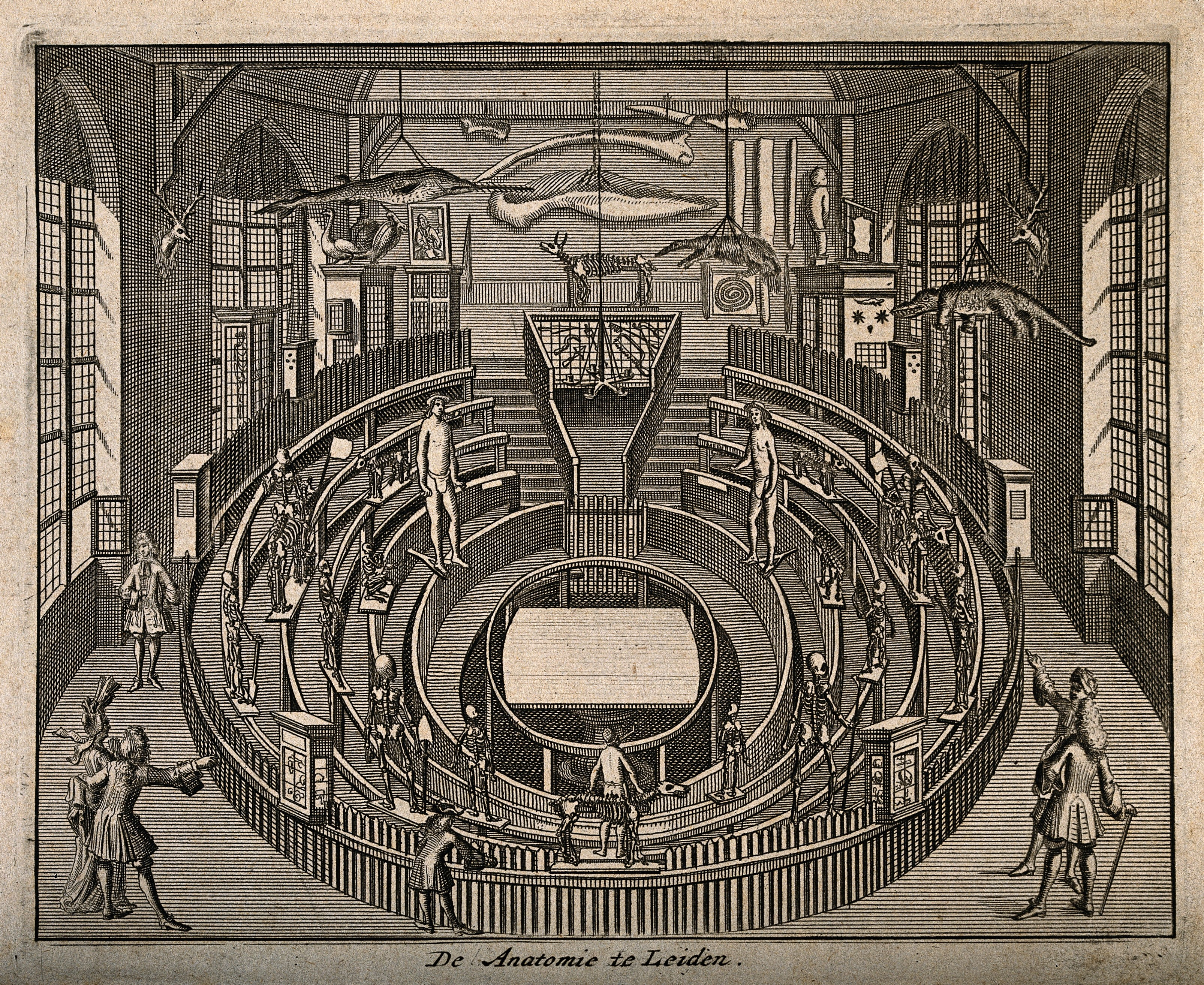 Anatomy Theatre, Leyden, the Netherlands. Line engraving. Iconographic Collections Keywords: leyden; anatomy theatre